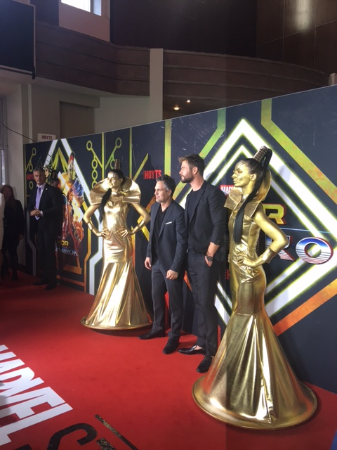 Mark Ruffalo (left) and Chris Hemsworth (right) at the Sydney premiere of Thor: Ragnarok.